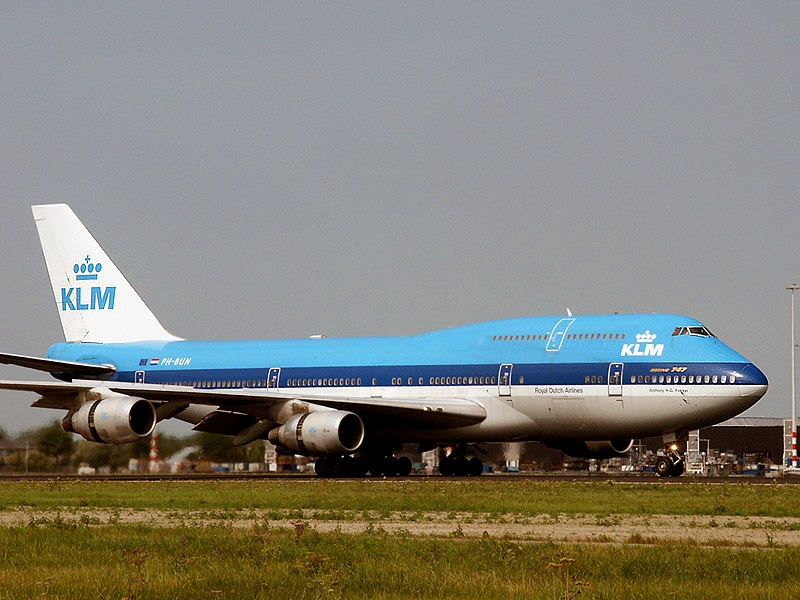 Zelfgemaakte foto, a Boeing 747 at Schiphol, The Netherlands.